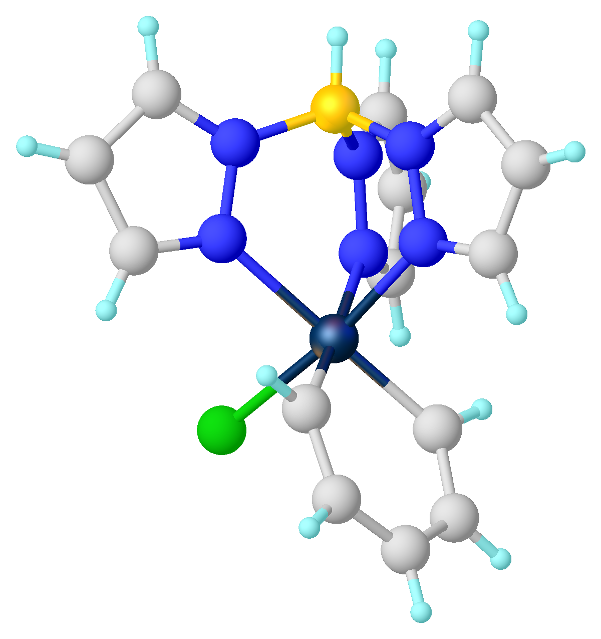 structure of the metallabenzene TpIrC5H5(Cl) from